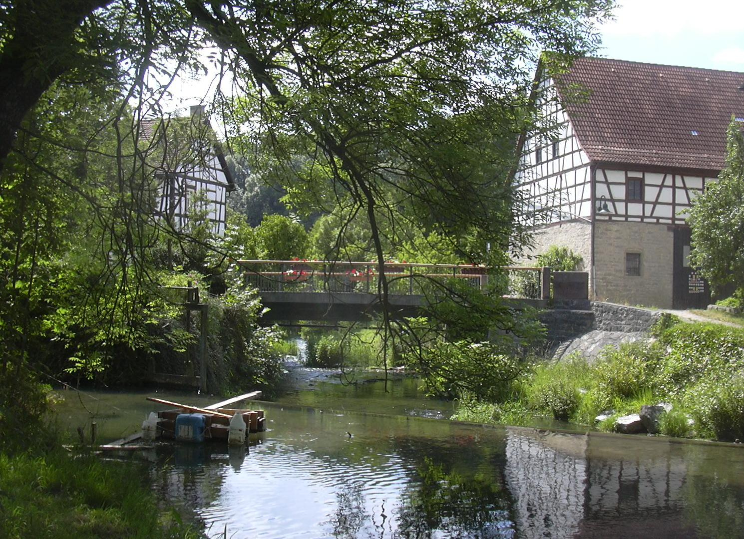 The small river Kessach in the village of Unterkessach, Germany